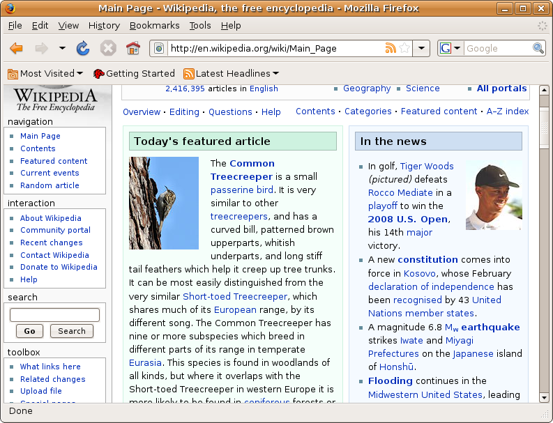 Screenshot of Firefox 3 on ubuntu.